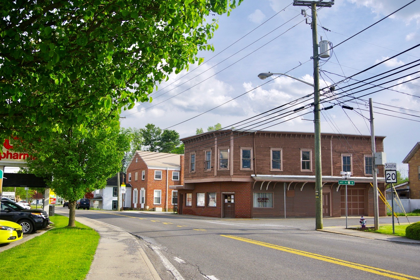 View along State Street (West Virginia Route 20) in Athens, West Virginia, United States. The Athens Town Hall is on the right.